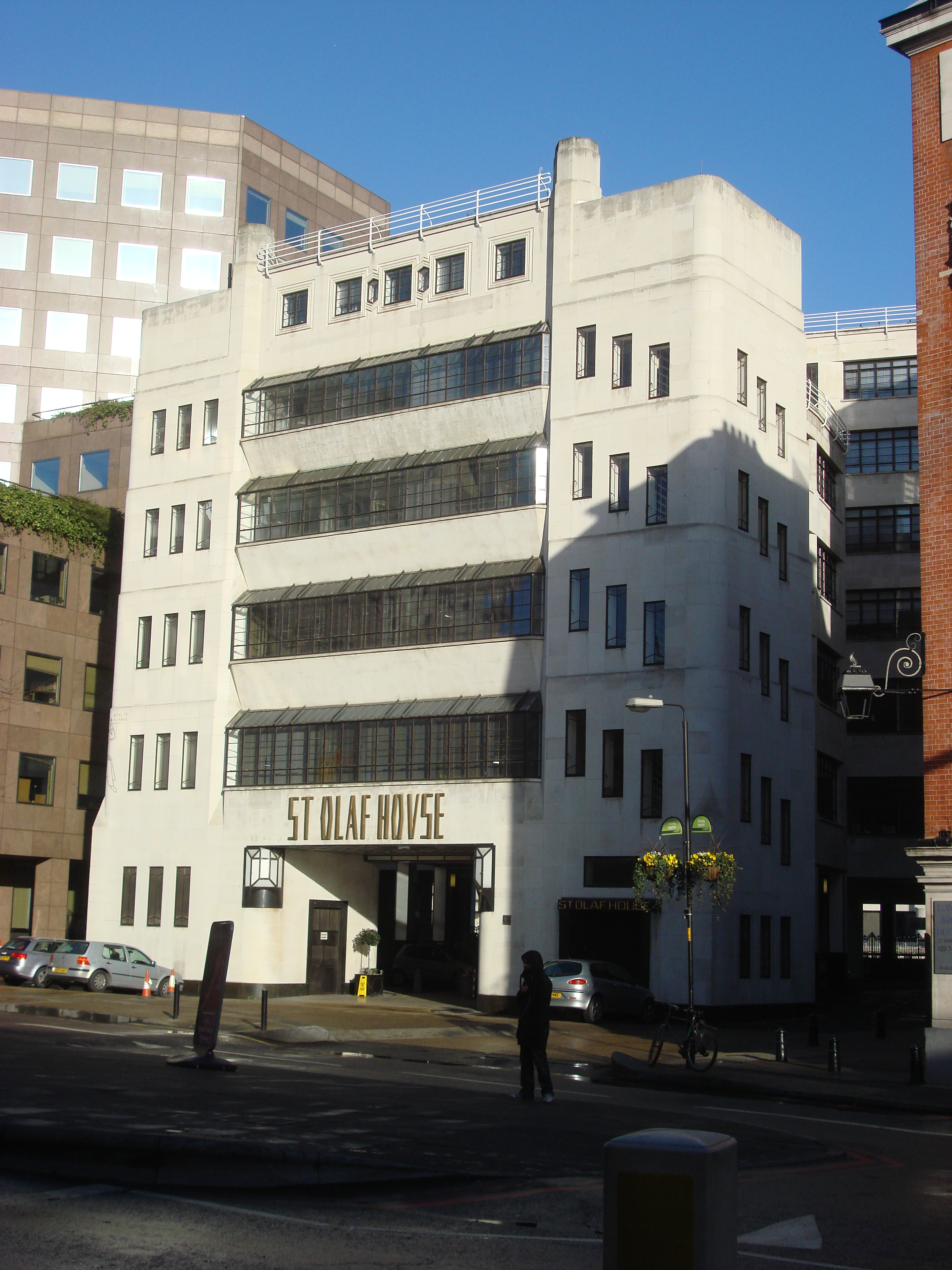 St Olaf House on Tooley Street was Designed by H S Goodhart-Rendel for the Hays Wharf Company in 1928-32 as offices and warehousing, the Art Deco facade includes turrets and angled walls. The building is named after the Viking chieftain Olaf Haraldsson (St. Olaf) who attacked London by river in 1009 and tore down London Bridge. It was built on the site of St Olave's church (an alternative spelling of the name) which had occupied the site from the 11th century, was rebuilt in 1740 and finally demolished around 1926.